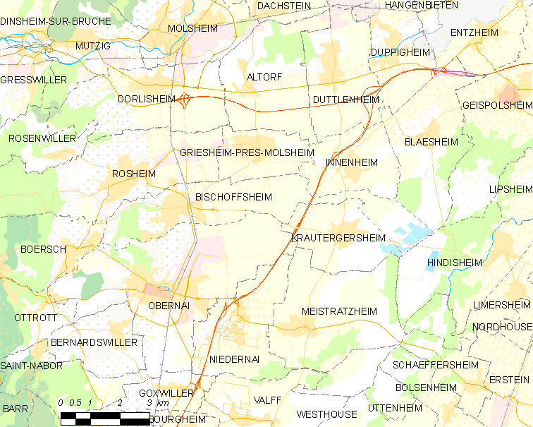 Map of French municipality